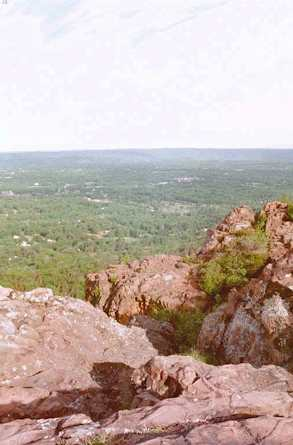 West Peak of the Hanging Hills, Meriden, Connecticut. 200, by Paul Gagnon